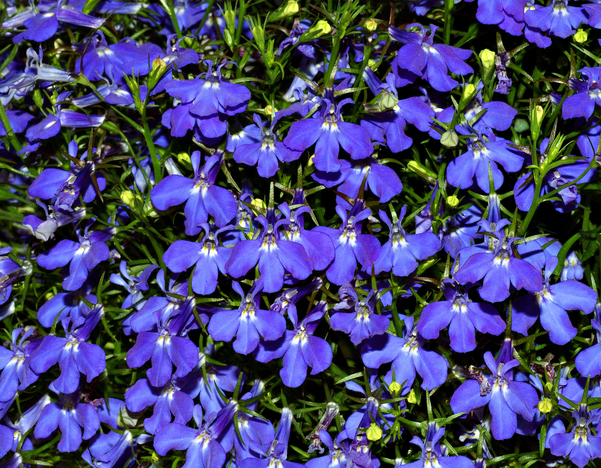 This image shows a Lobelia.